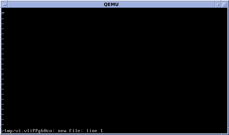 The vi editor in OpenBSD 5.3, as it appears when starting the editor without any file selected. This is the "nvi" ("new vi") implementation made by Berkeley CSRG after the AT&T lawsuits. Running in a QEMU VM.